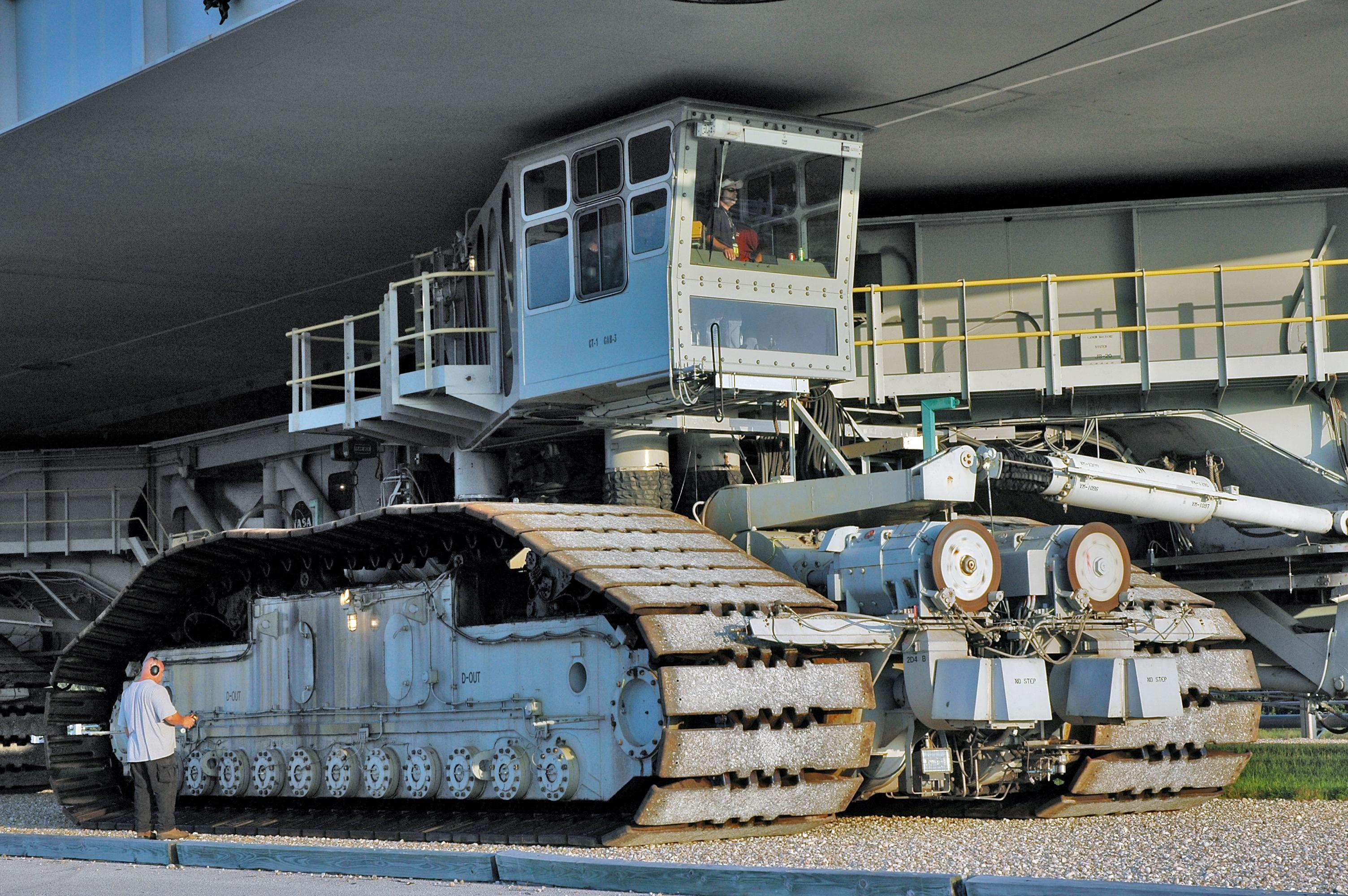 NASA photograph KSC-05PD-1322 – the crawler-transporter carries Space Shuttle Discovery to Launch Pad 39B on 2005-06-15 for STS-114.